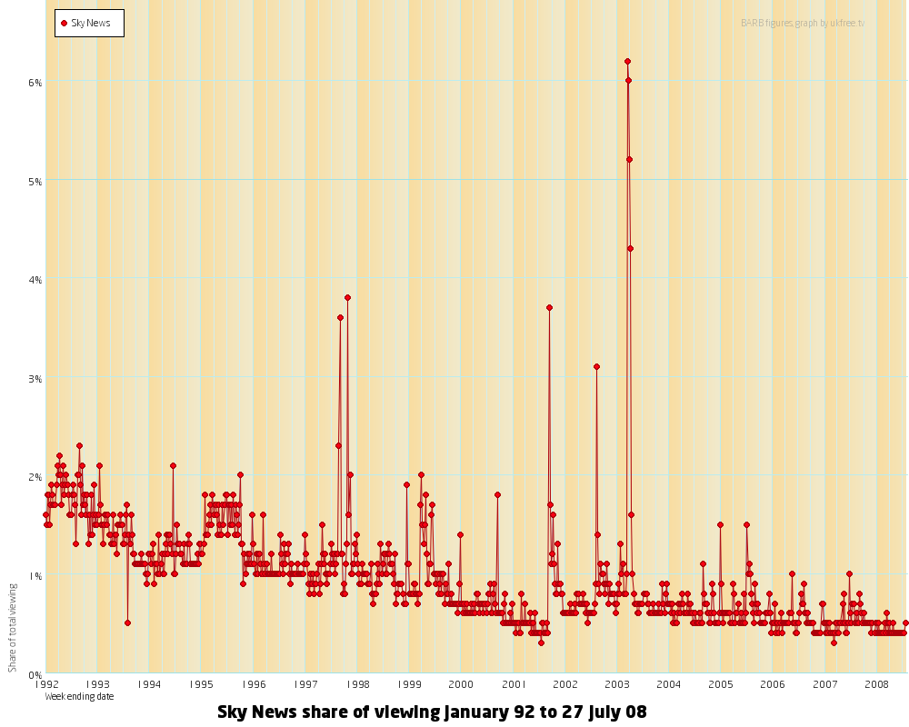 Sky News historic viewing share, BARB figures